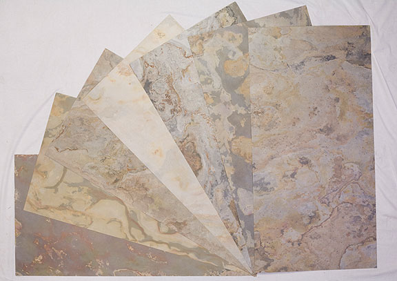 Seven sheets of flexible stone veneer, showing color and texture variations. Laid out on a white cloth.